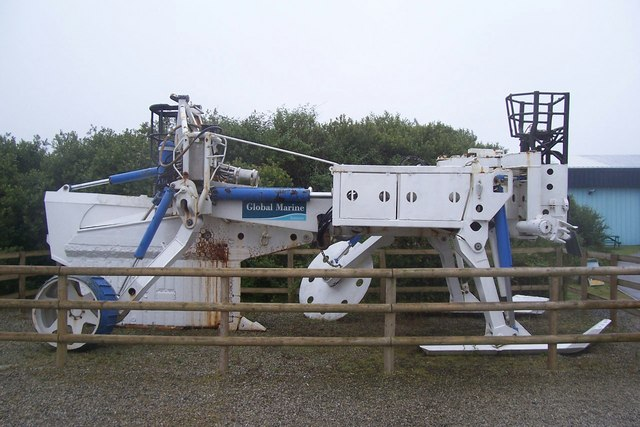 "Sea Plough", Goonhilly Satellite Earth Station. An interesting bit of kit on display outside the visitor centre. This machine is used for "ploughing" cable routes in the ocean bed.